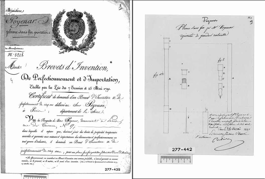 Patent for the the world's first fountain pen, an invention for which the French Government issued a patent on 25 May 1827.